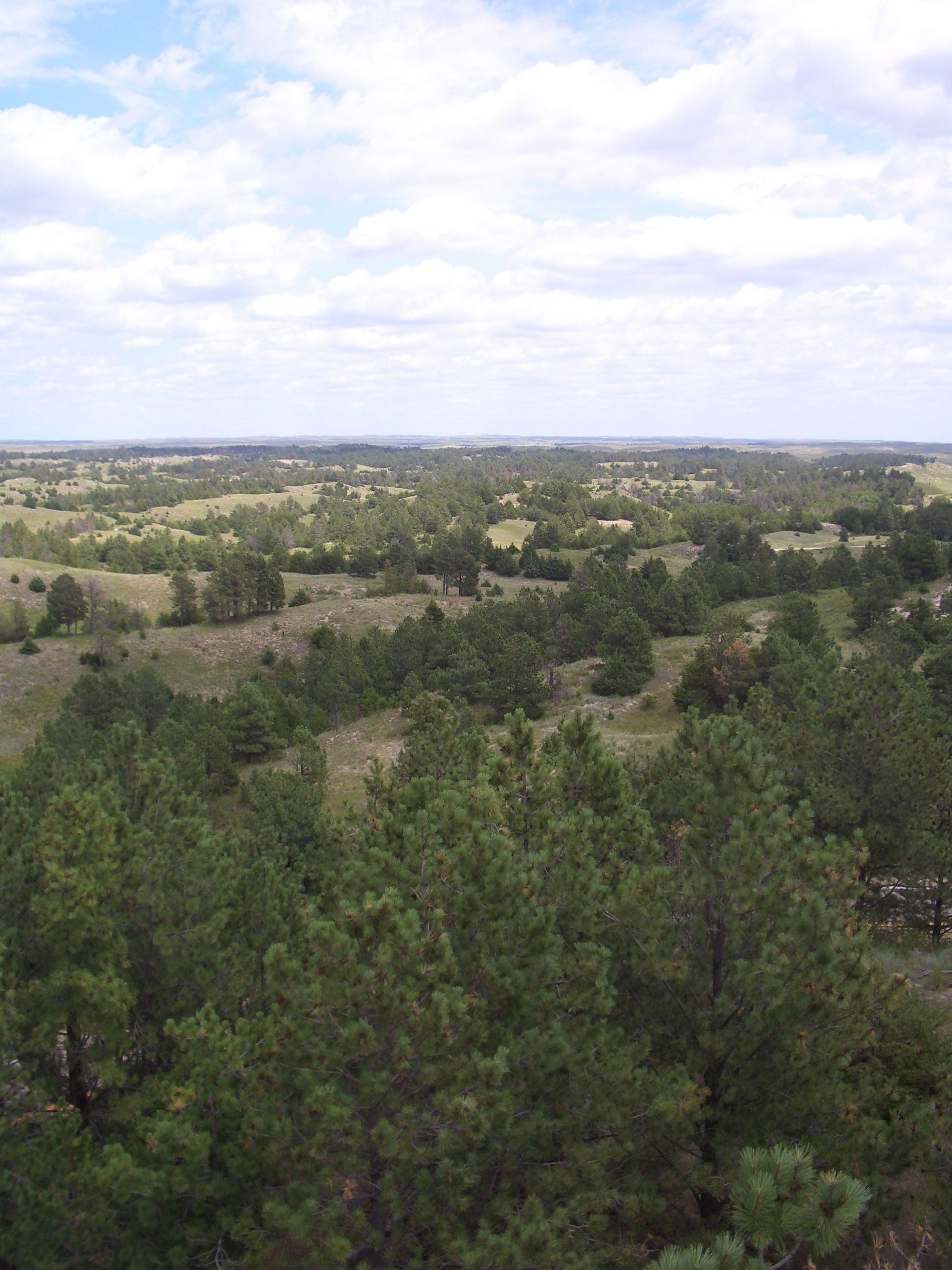 The Bessey Ranger District of the Nebraska National Forest, near Halsey, Nebraska, is the largest human-planted forest in the United States. This photo was taken from the top of Scotts Tower.